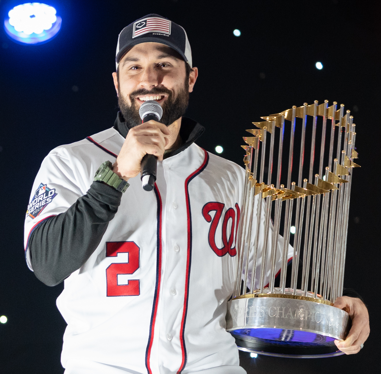 USO Talent perform a variety-style show at Mihail Kognalniceanu Air Base, Romania, as part of the Chairman's USO New Year's Tour 2020, on Jan. 7, 2020. Vice Chairman of the Joint Chiefs of Staff Gen. John E. Hyten and Senior Enlisted Advisor to the Chairman Ramon "CZ" Colon-Lopez host the Chairman's USO Tour on behalf of Chairman of the Joint Chiefs of Staff Gen. Mark A. Milley to bring Washington Nationals Aaron Barrett and Adam Eaton, comedians Scott Armstrong and Matt Walsh, actor Brad Morris, country music band LoCash, MMA Fighters Illima-Lei Macfarlane and Felice Herrig; and DJ J Dayz to show service members in the U.S. European area of responsibility that America remembers them and values their service. (DoD Photo by U.S. Army Sgt. James K. McCann)